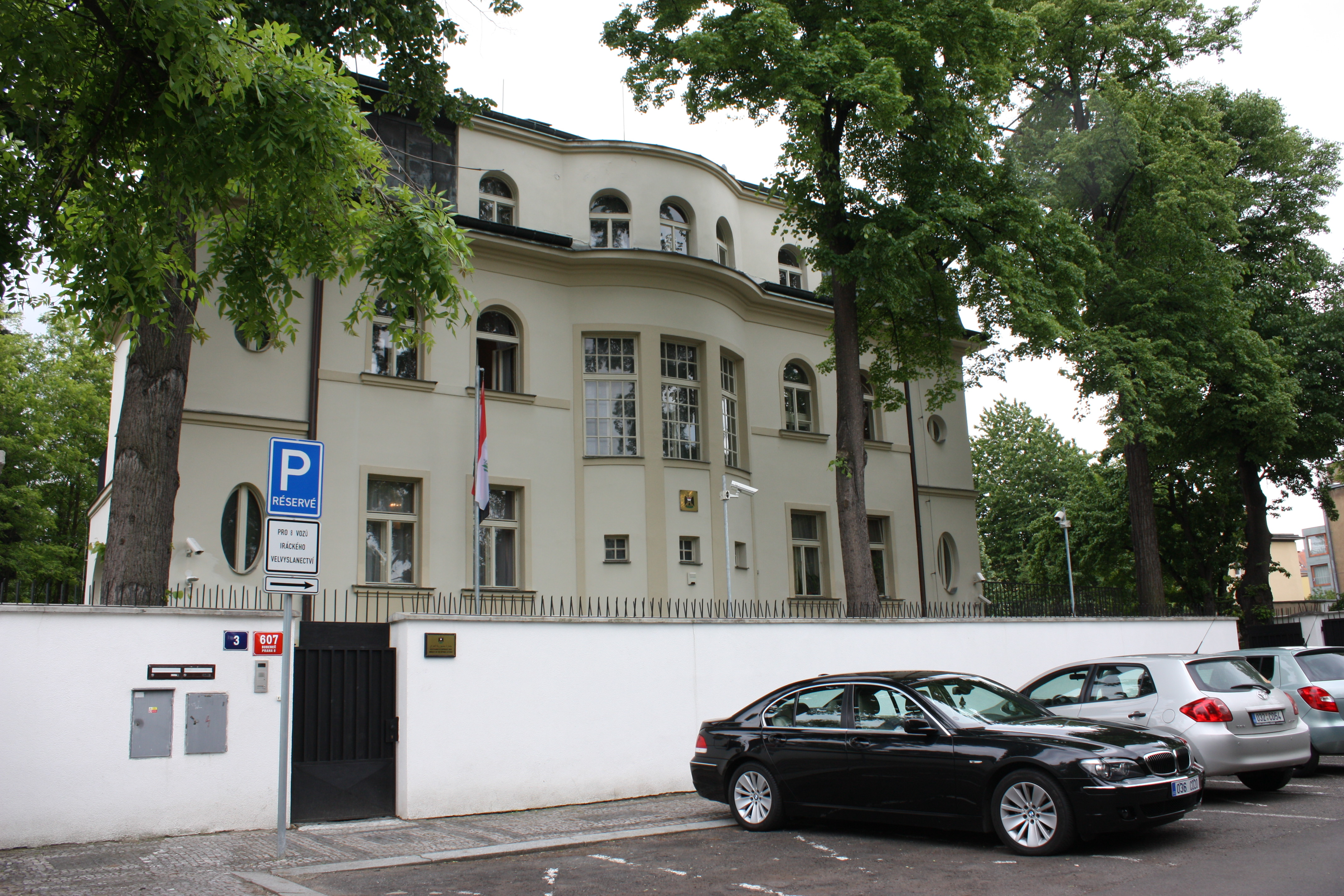 Embassy of Iraq, Mongolská 607/3, Prague 6 - Bubeneč, Czechia.